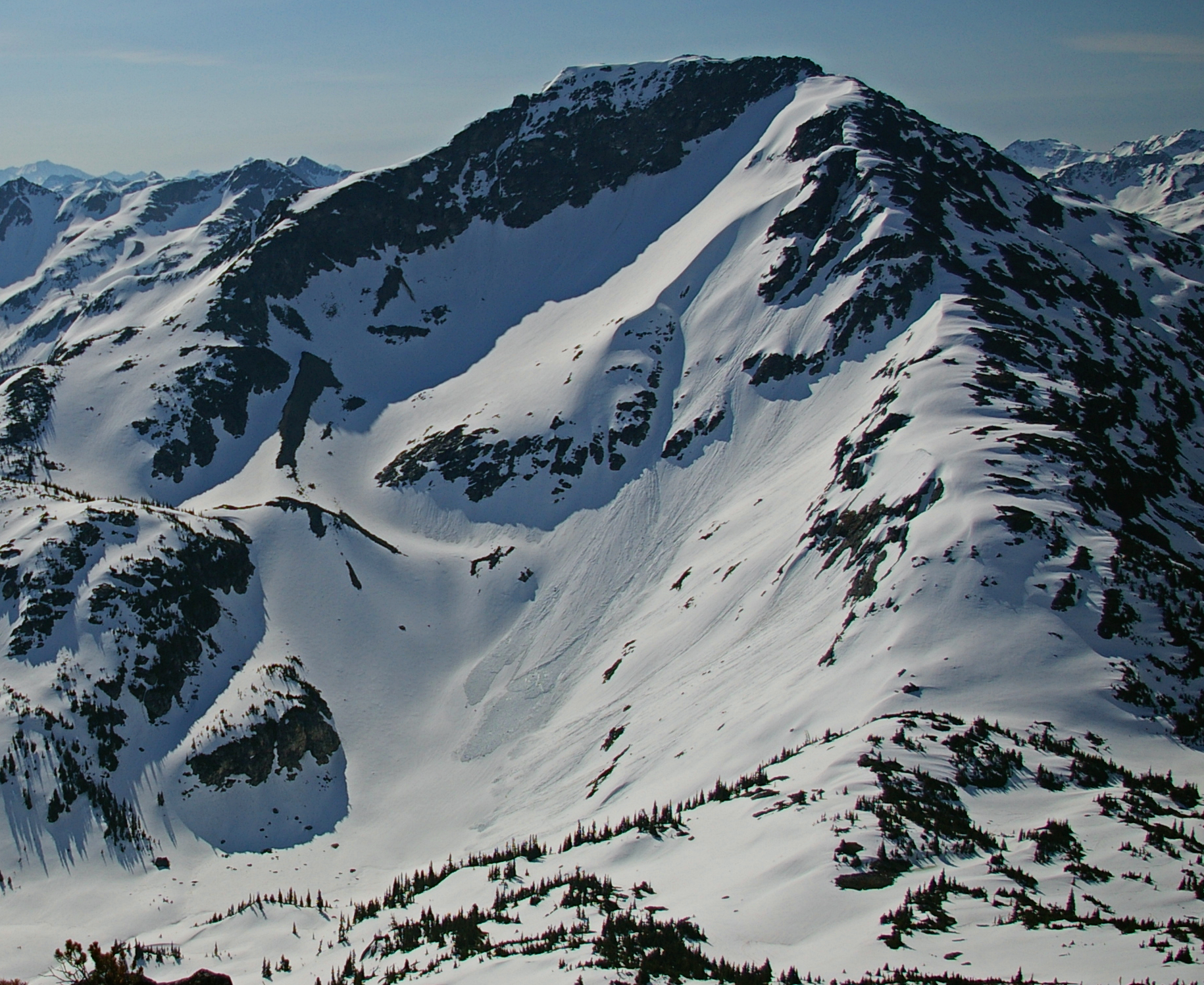 Northwest aspect of Mount Duke in Canada as seen from Vantage Peak